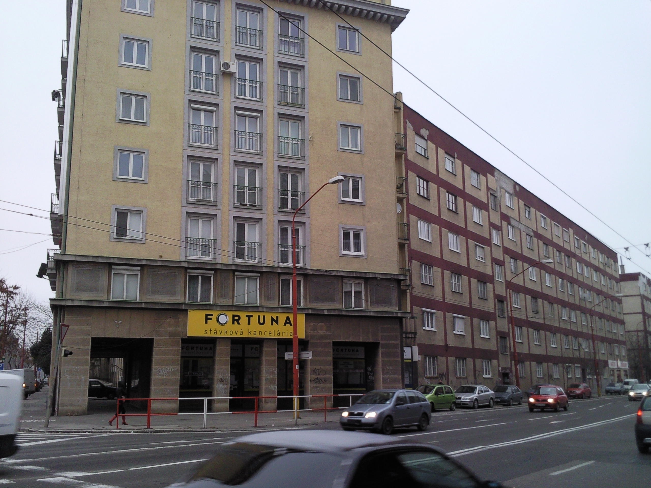 Račianske mýto and Šancová street intersection in Bratislava